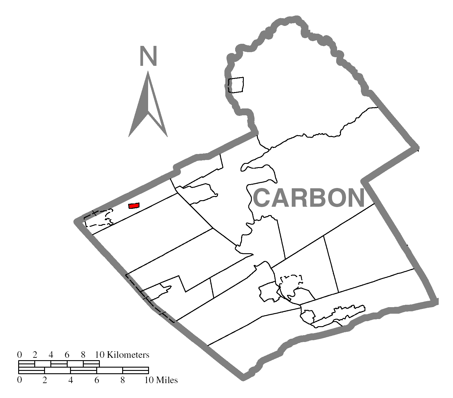 A map of Carbon County showing Beaver Meadows, Pennsylvania (alternate) highlighted on the map.